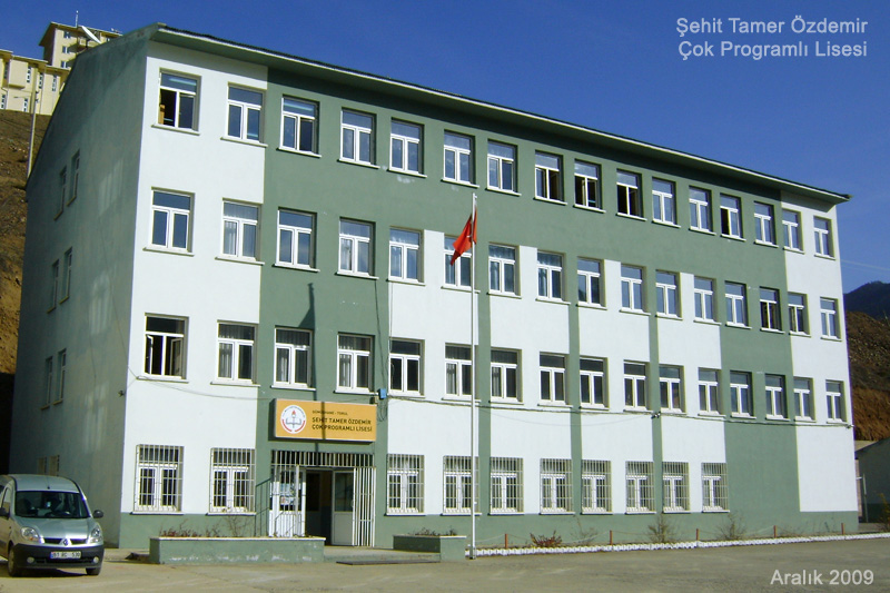 Şehit Tamer Özdemir Anatolian High School building.